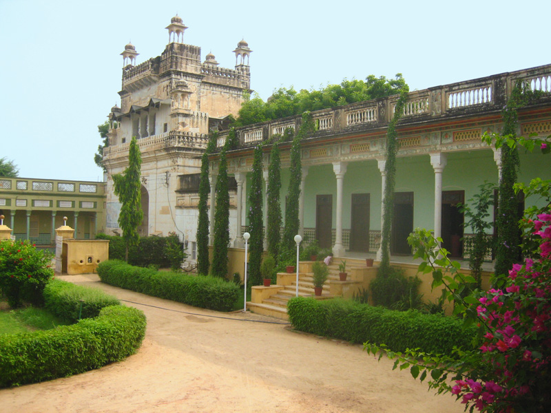 Stayed in this beautiful old family home, built in the Rajasthani-colonial style of the 1920's, and now a heritage hotel run by Neemrana Hotels, at Bagar, Rajasthan.